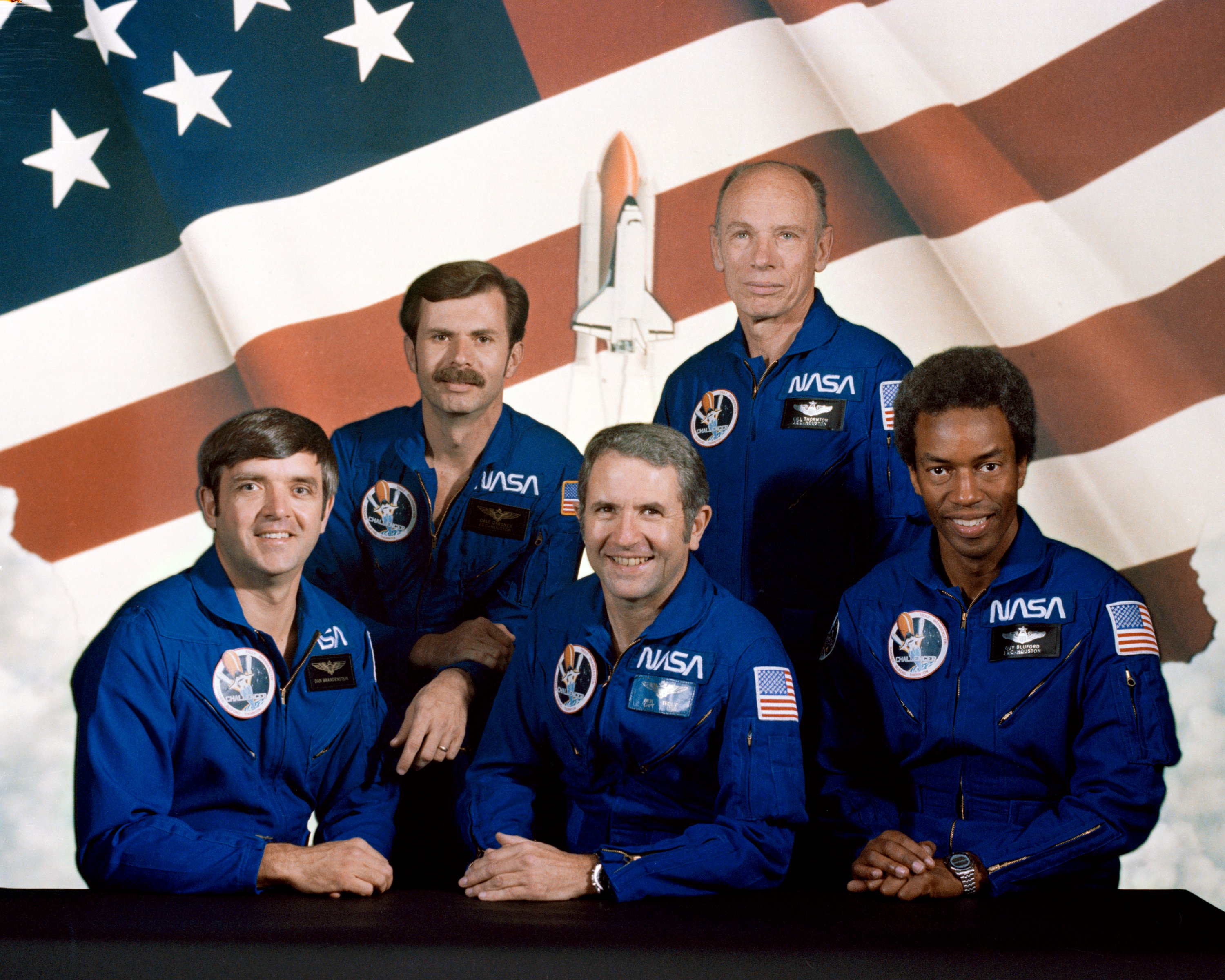 Official STS-8 crew portrait in flight suits. Seated from left to right are Daniel C. Brandenstein, pilot; Richard H. Truly, commander; and Guion S. Bluford Jr., Mission specialist. Standing from left to right are Dale A. Gardner, mission specialist; and William E. Thornton, mission specialist. Film Type: 120 mm